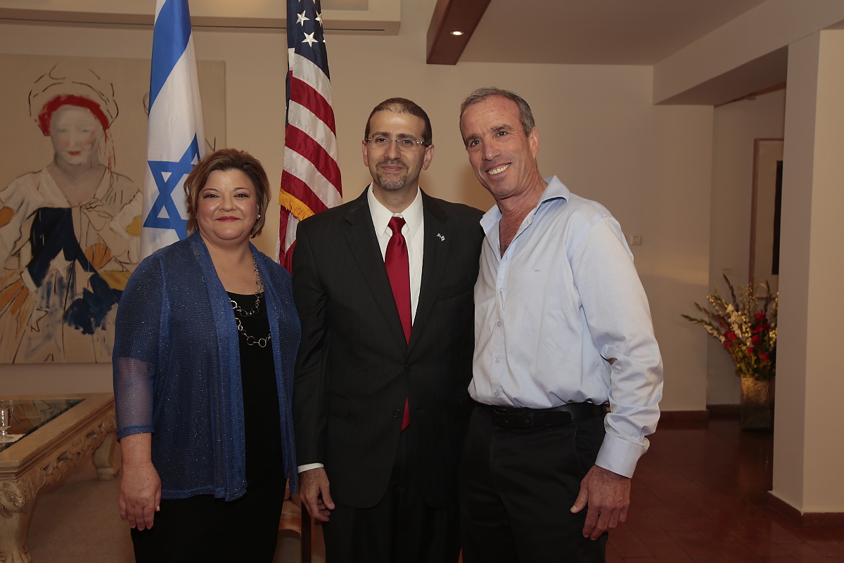 July 4th 2015